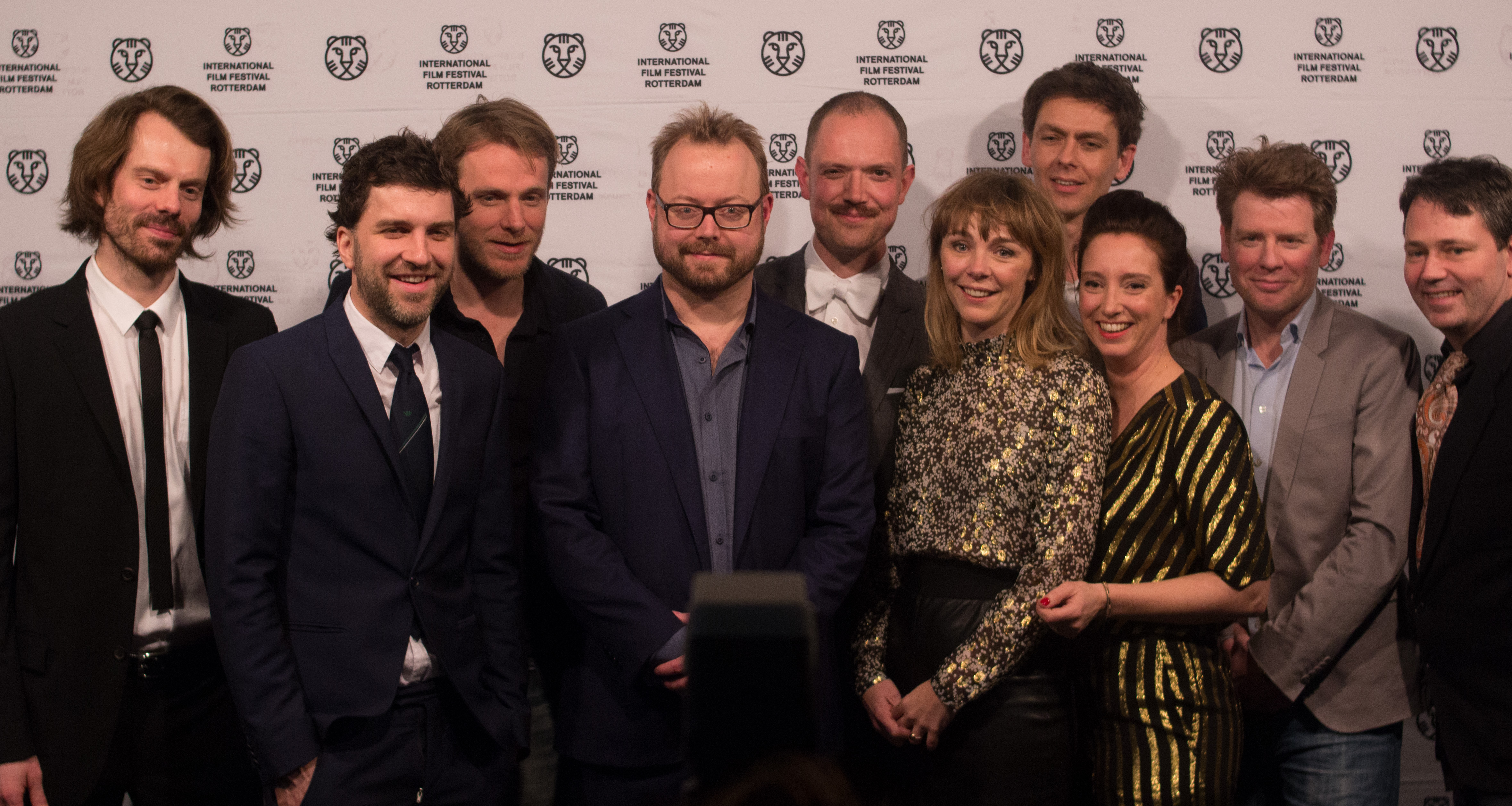 cast & crew at the IFFR 2017